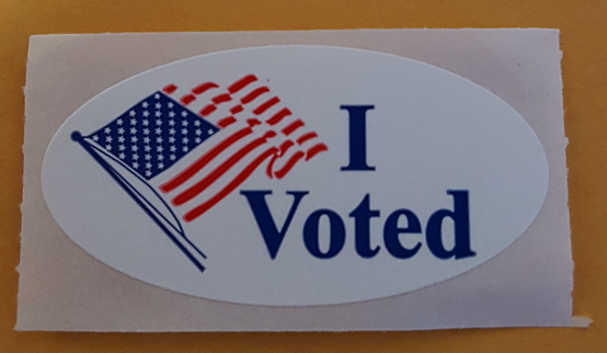 An "I voted" sticker given to Boston voters in 2016.